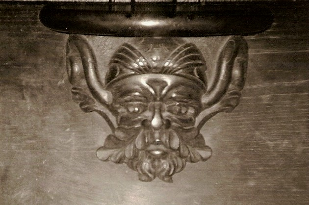 Misericord from Saint Jacques church of Perros-Guirec (France)